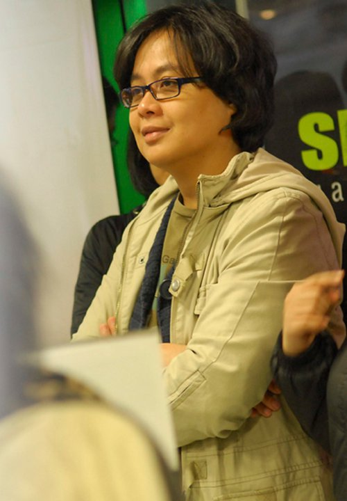 Producer